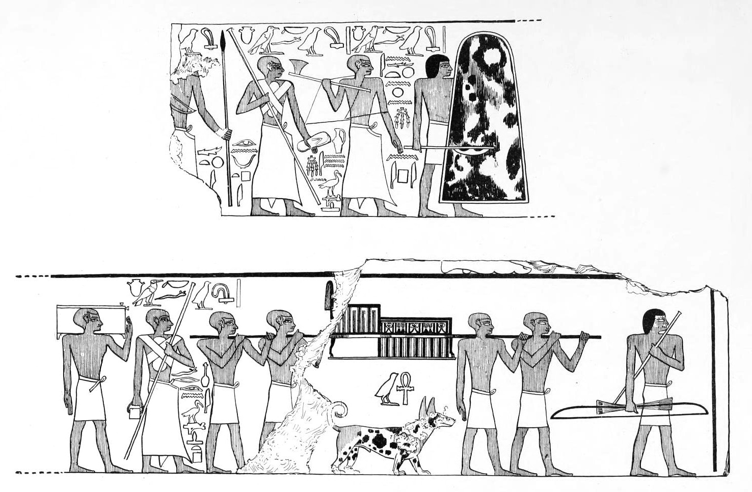 Drawing of a relief and inscriptions from the tomb of the nomarch Djehutihotep in Deir el-Bersha. 12th dynasty, Middle Kingdom. [1147]